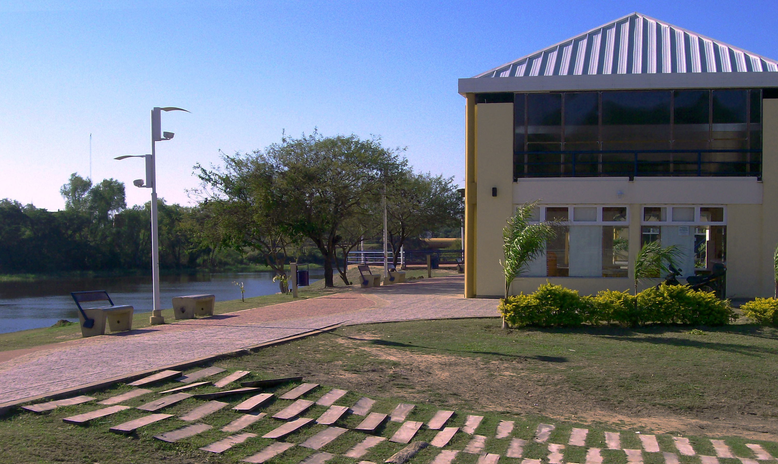 Urban park over Negro River in Resistencia, Chaco, Argentina. The building is a restaurant and discotheque.